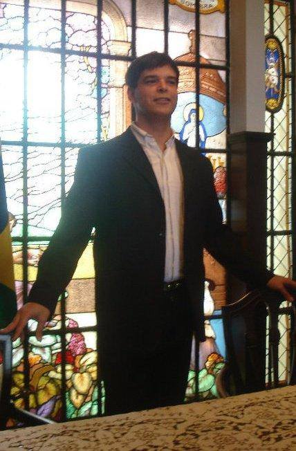 MARCELO MORAES CAETANO, PEN CLUB LONDRES